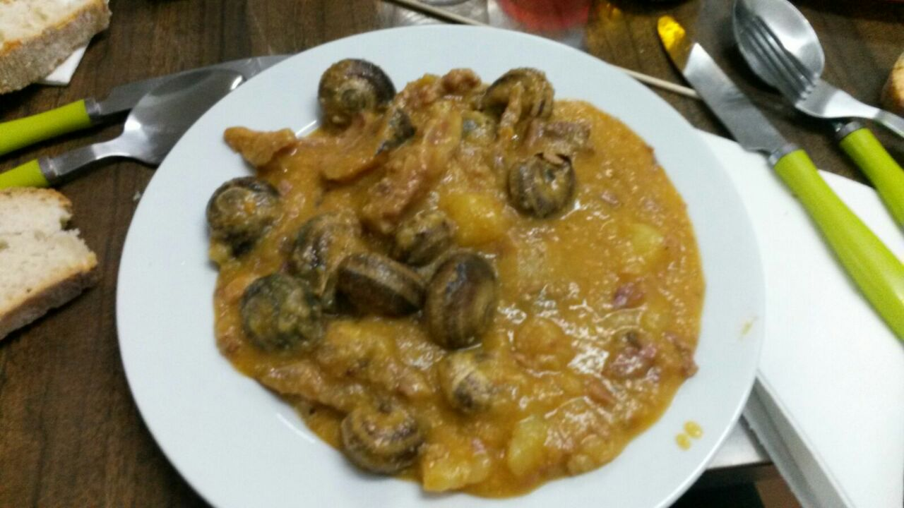 Typical dish from Tarragona, espineta amb caragolins or Saint Thecla dish.